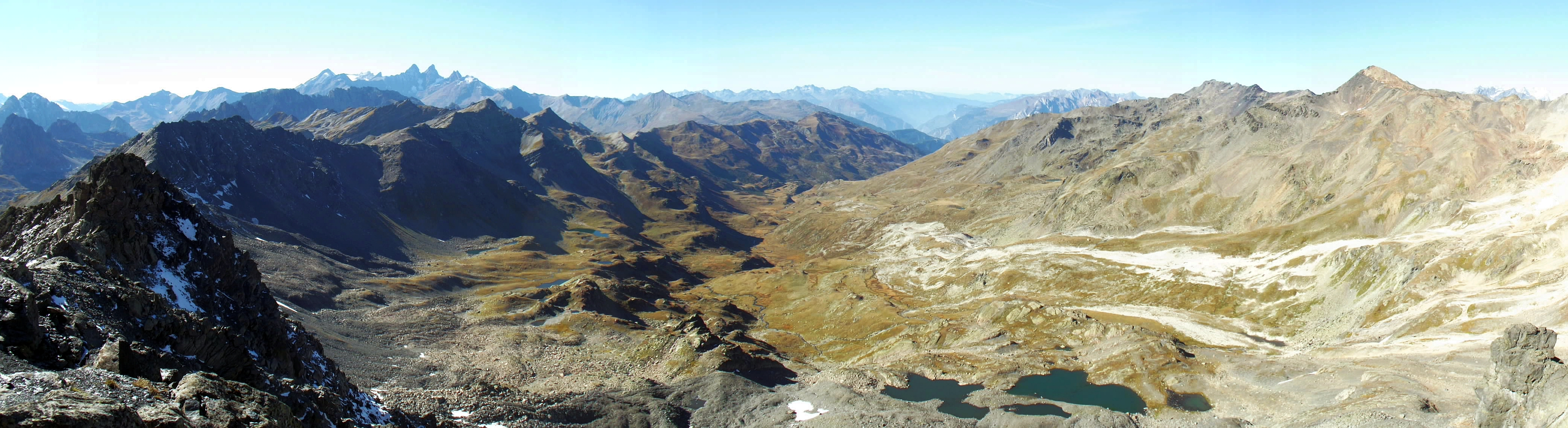 Roche du Chardonnet: panorama towards the Vanoise